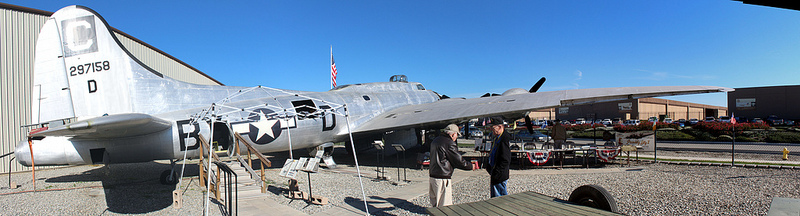 B-17 Flying Fortress "Piccadilly Lilly II" under restoration at the Chino Planes Of Fame Air Museum.